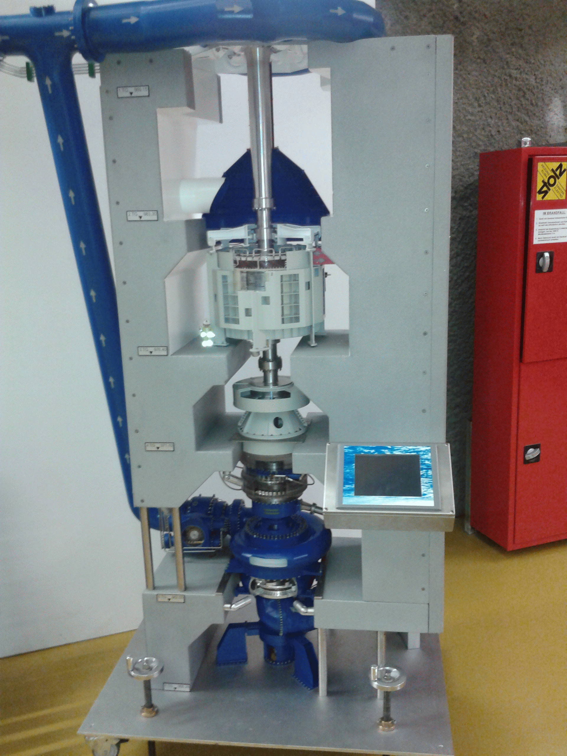 Kopswerk II - machine model